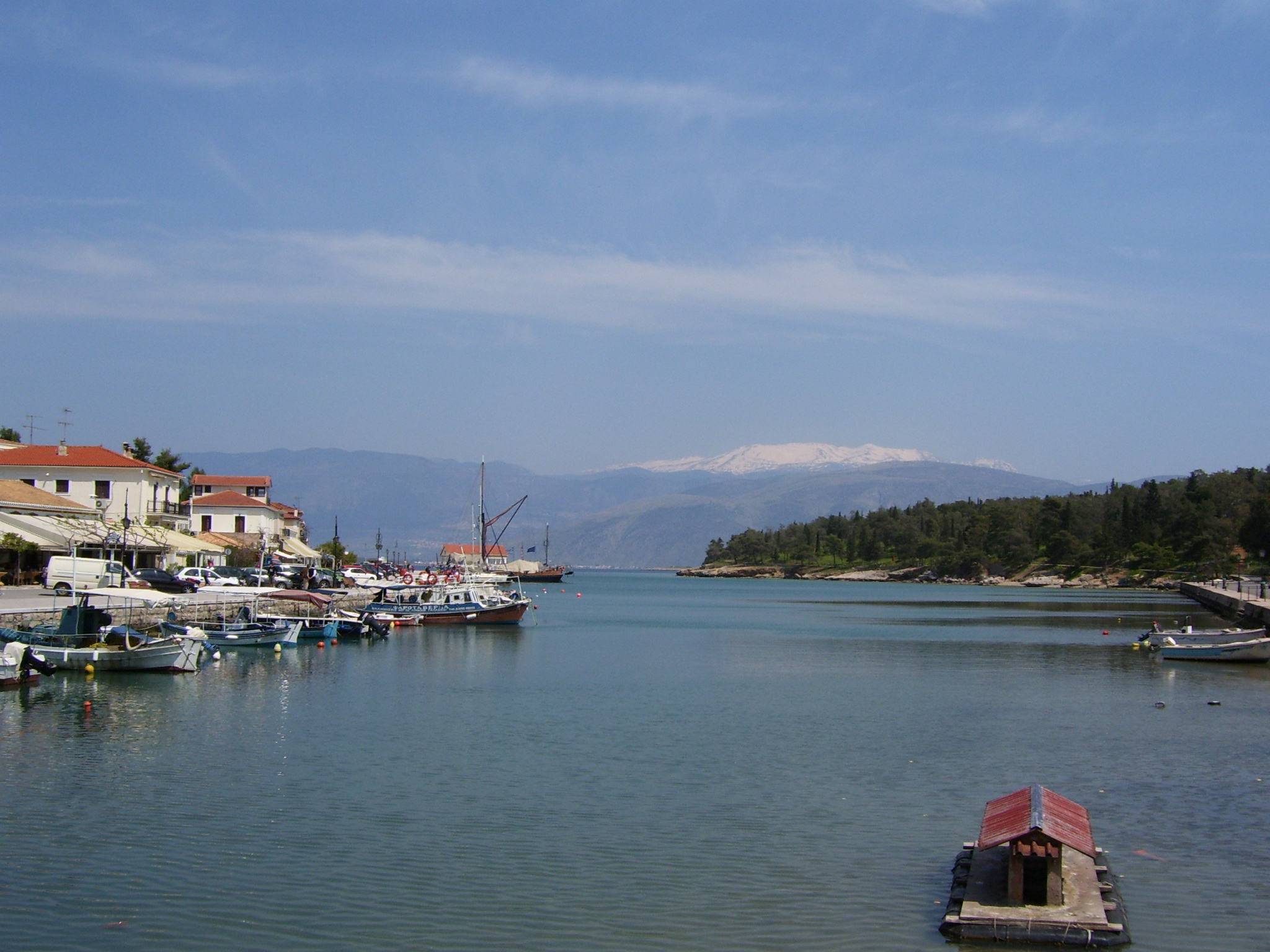 Galaxidi